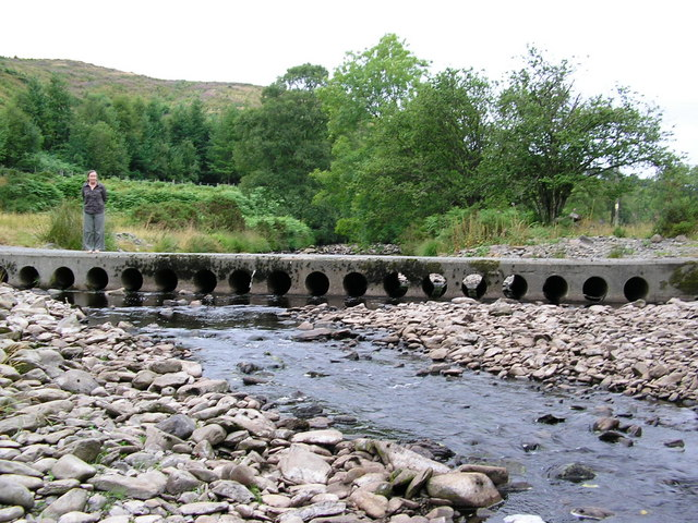 A bridge over Afon Twrch near Foel, Powys, Wales. After heavy rain this bridge becomes a ford.